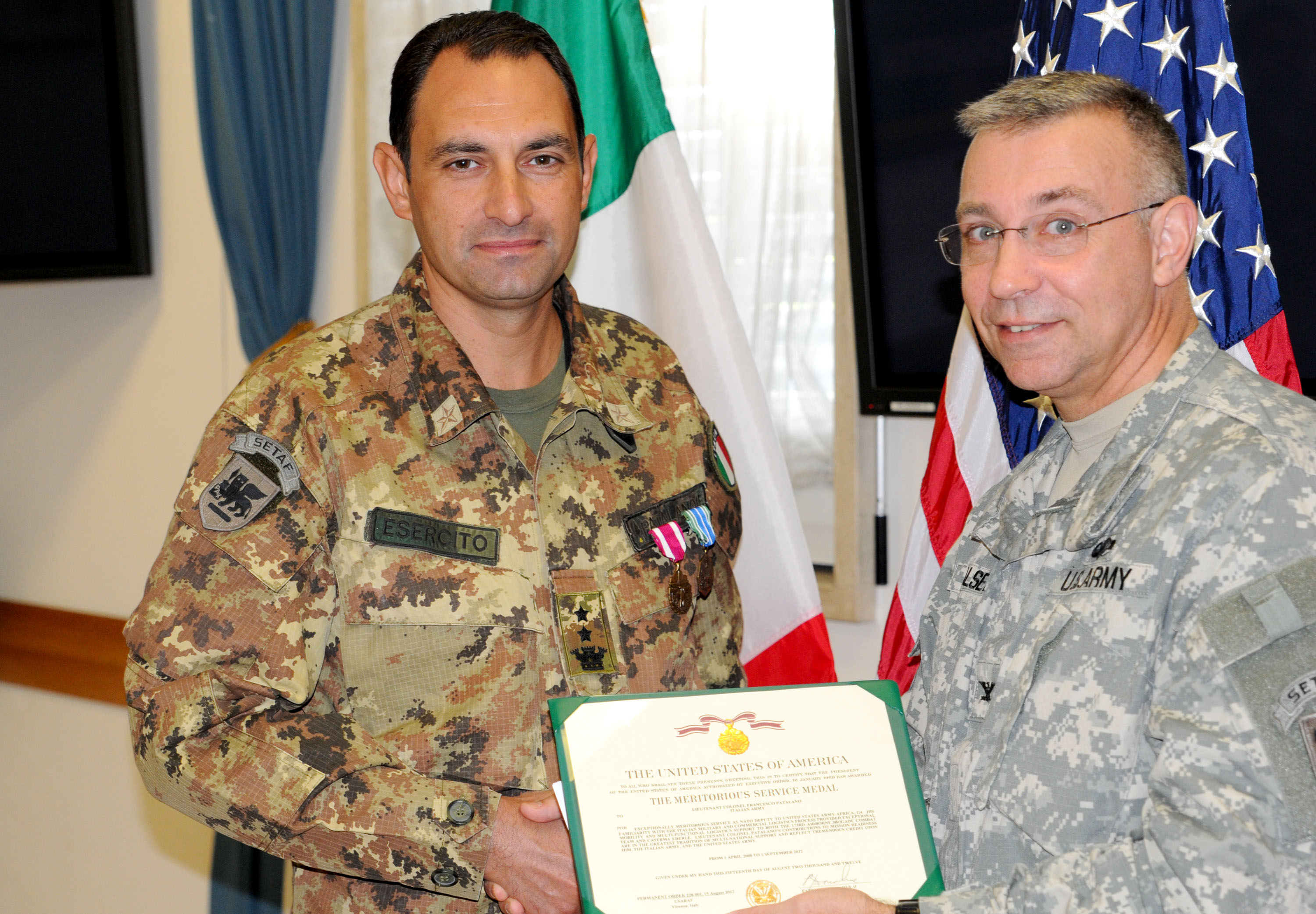 U.S. Army Africa’s Director of G-4 Logistics, Col. Mike Balser (right) presents Italian Army Lt. Col. Francesco Patalano with a U.S. Army Meritorious Service Medal. Patalano was also awarded a U.S. Army Achievement Medal during a ceremony commemorating his tour of duty with USARAF. After four years of serving with USARAF, Patalano will take command of the Italian Army’s the 3rd battalion, 32nd Tank Regiment. (U.S. Army Africa photo by Rich Bartell) To learn more about U.S. Army Africa visit our official website at Official Twitter Feed: Official Vimeo video channel: Join the U.S. Army Africa conversation on Facebook